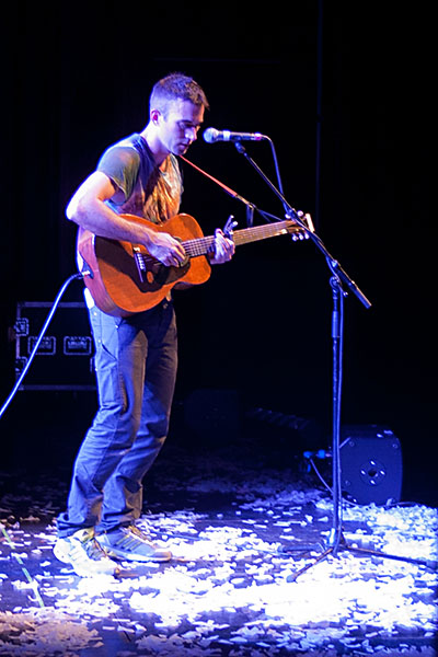 in concert in Leipzig in May 2011